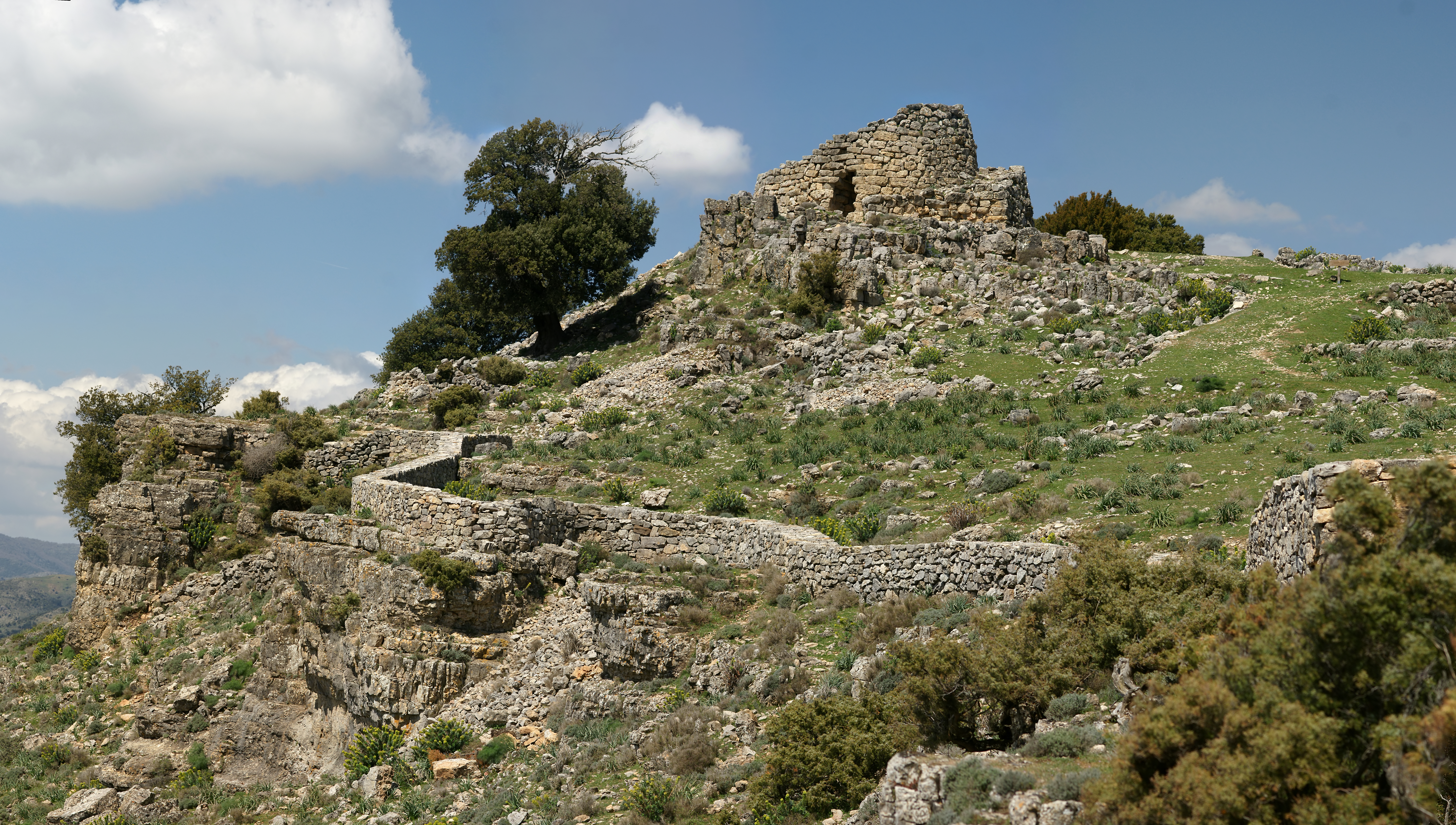 Nuraghe Ardasái, Sardinia, Italy.